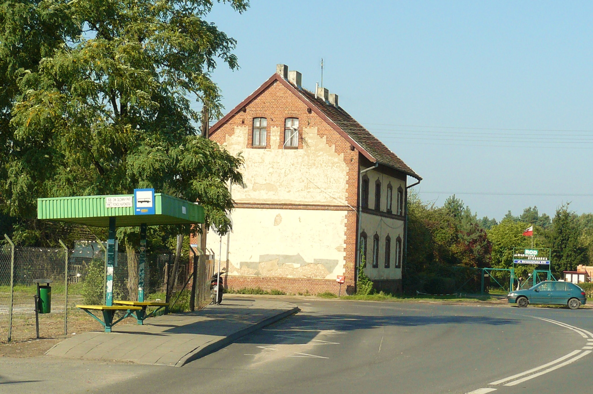 Poznan, Zakopianska Street.